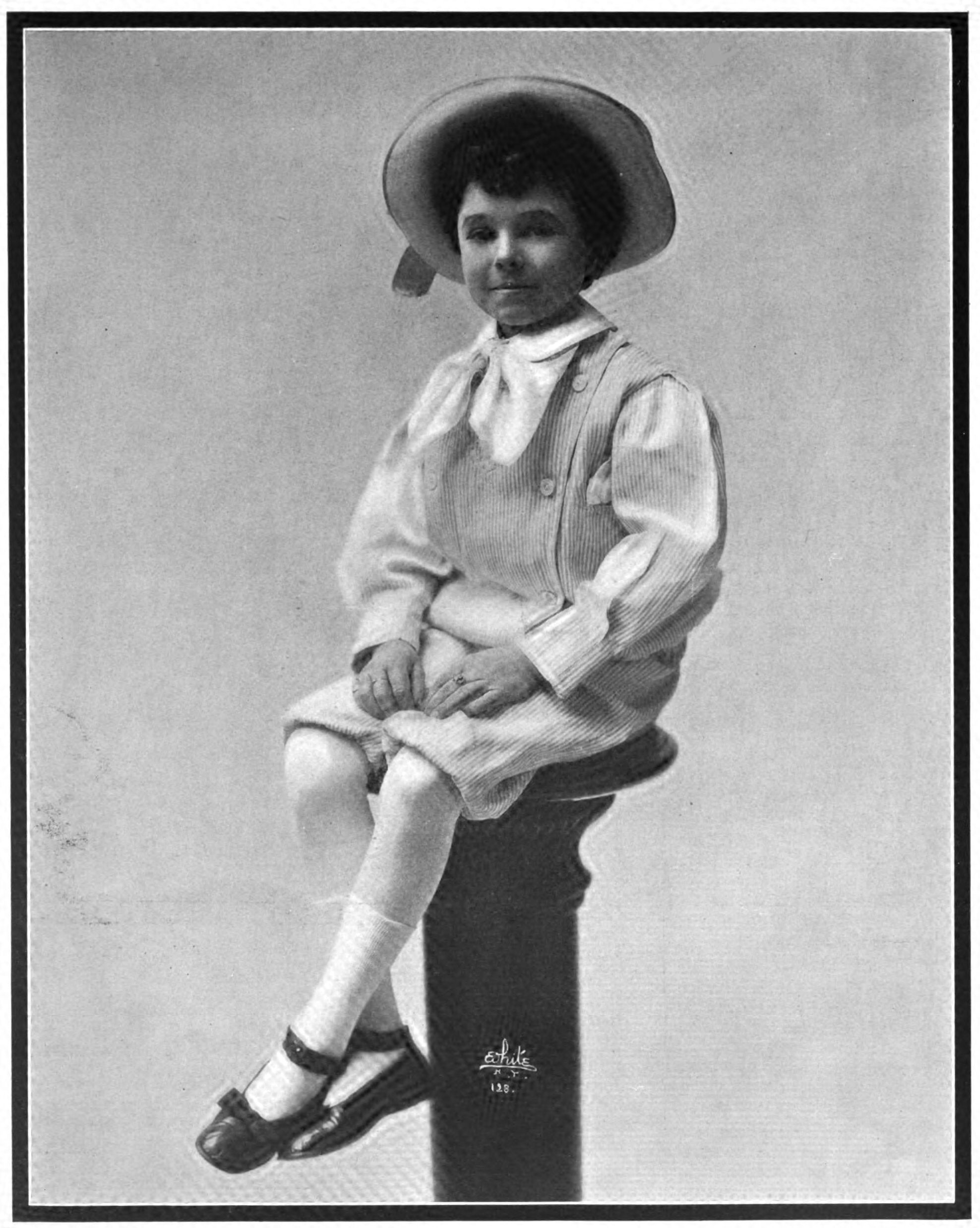 Proportional dwarf Master Gabriel in Little Nemo